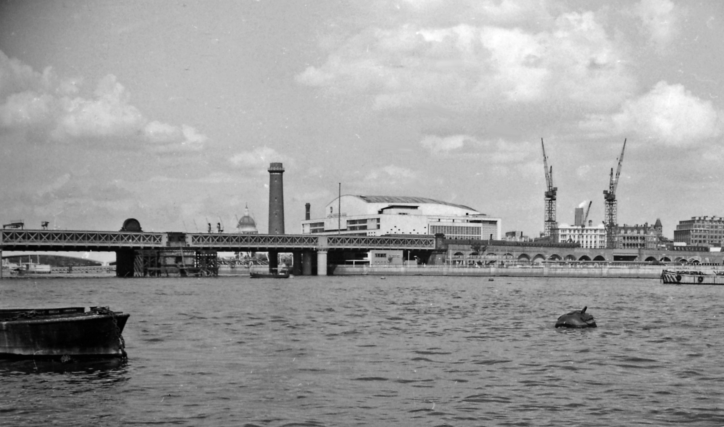 View downstream from Westminster Pier - in 1958. Hungerford Railway Bridge (with footbridge only on the downstream side) is prominent, as is the old Shot Tower still standing by the quite new Royal Festival Hall. Over to the right they are beginning to build the Shell Tower. In the distance St Paul's Cathedral seems to stand alone and between the cranes the new Bankside Power Station is just visible. Much else is yet to come in the next 50 years!